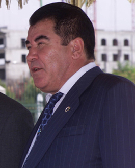 Saparmurat Niyazov, President of Turkmenistan